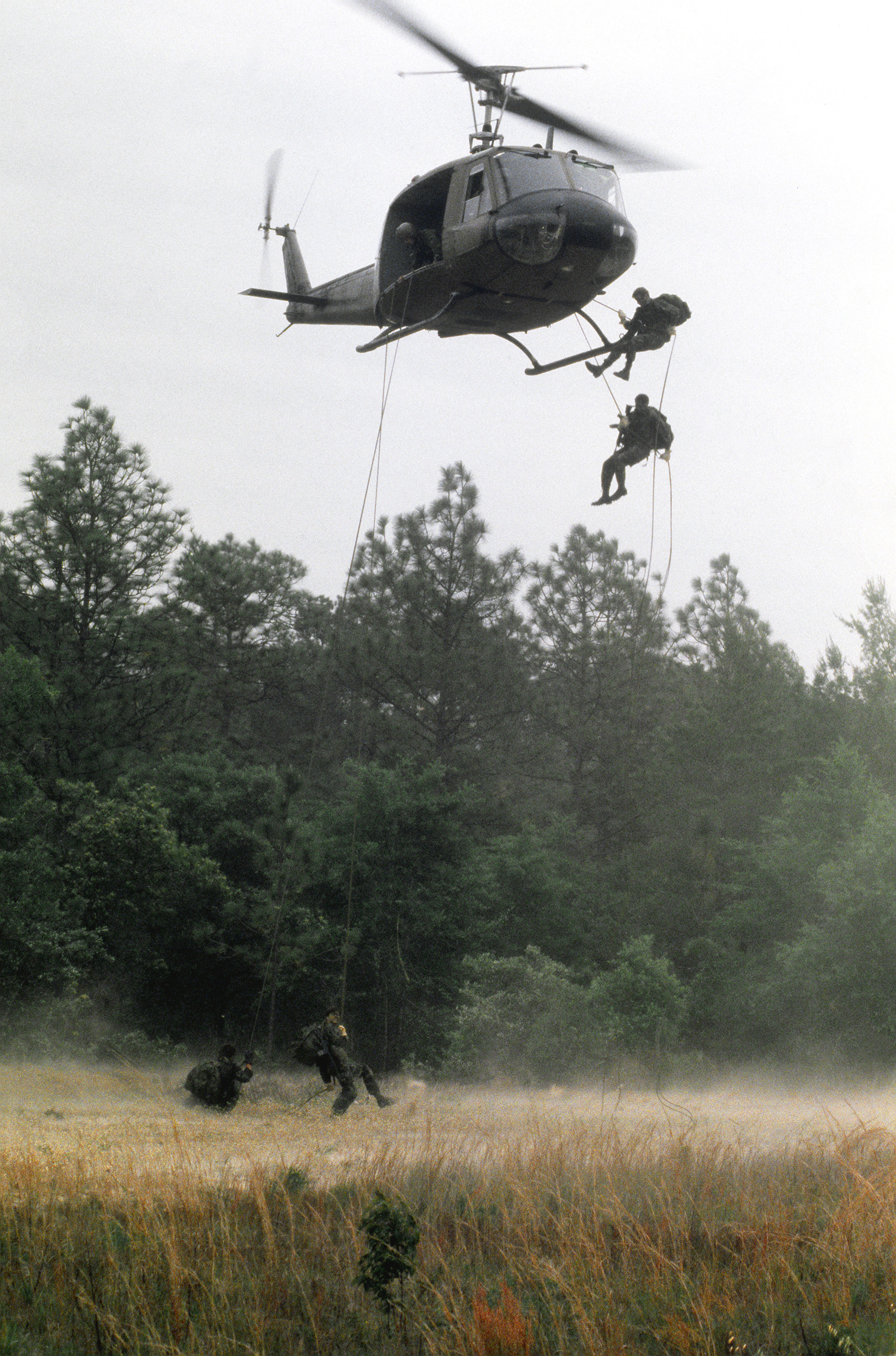 Combat control team members rappel from a hovering Army UH-1H Iroquois helicopter during training. The team members are from the 1st Special Operations Wing.